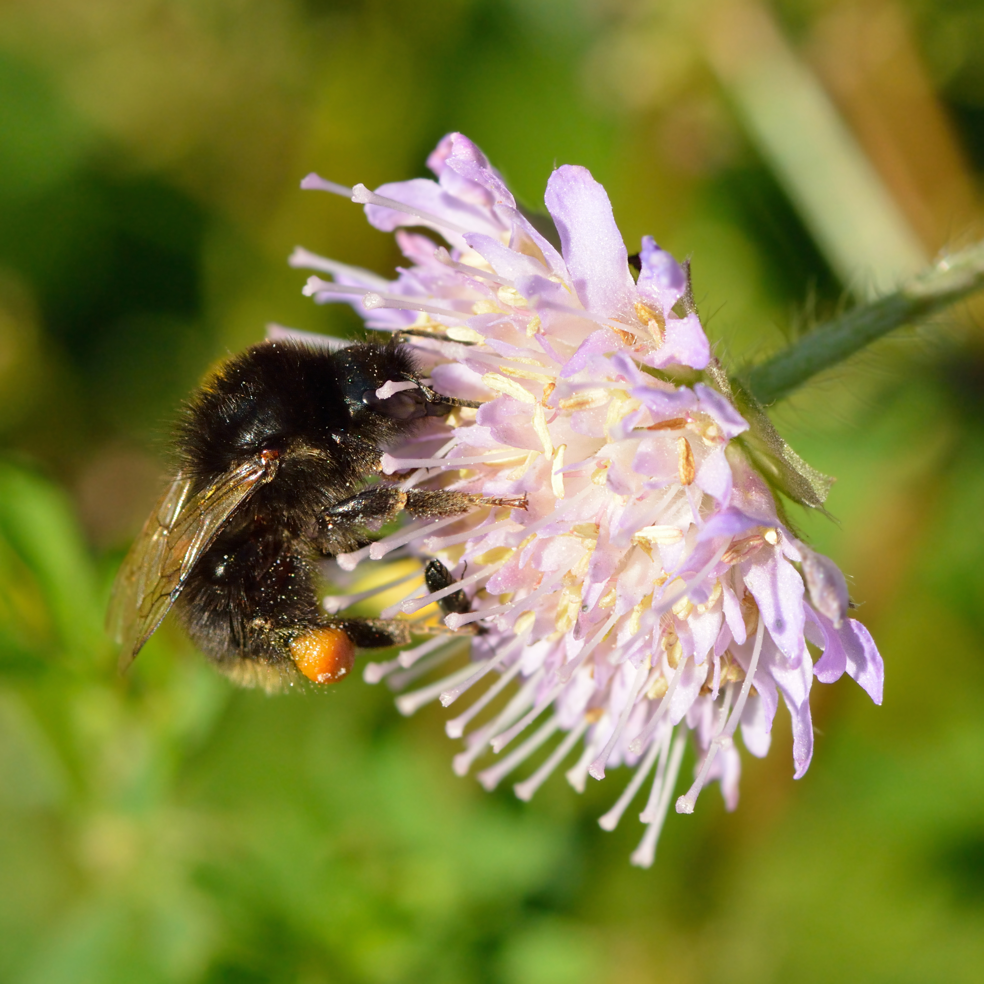 Ilfracombe bumblebee (Bombus soroeensis) on the field scabious (Knautia arvensis). Keila, Northwestern Estonia.